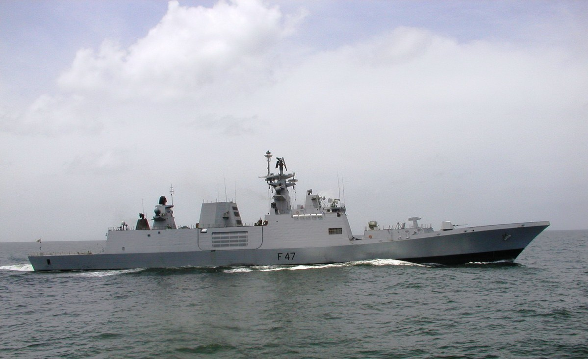 INS Shivalik, India's stealth frigate.